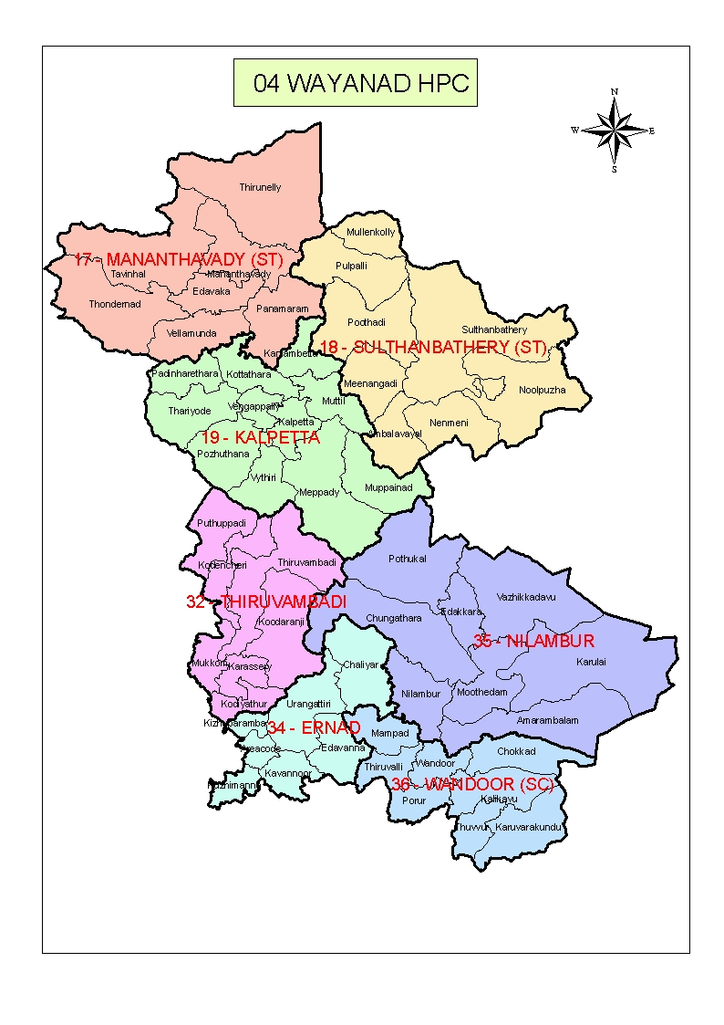 This is the map of Wayanad Lok Sabha Constituency